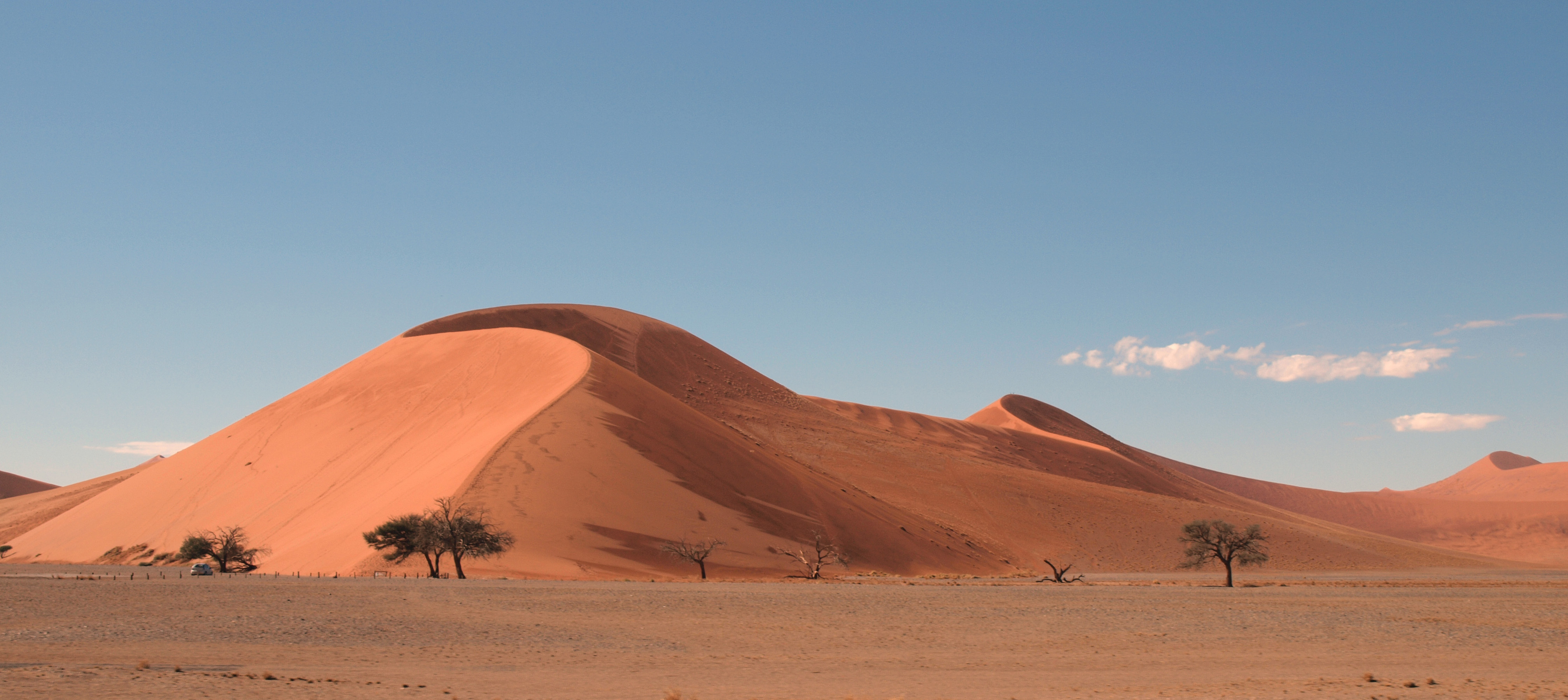 Nabimia, Sossusvlei. Dune #45, Sossusvlei.